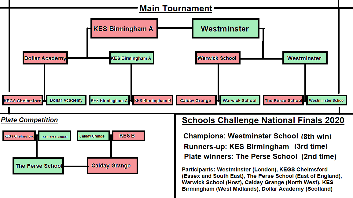 In the UK every year a national general knowledge competition is held known as the Schools Challenge. This file is a tournament tree giving information on the 2020 competition.